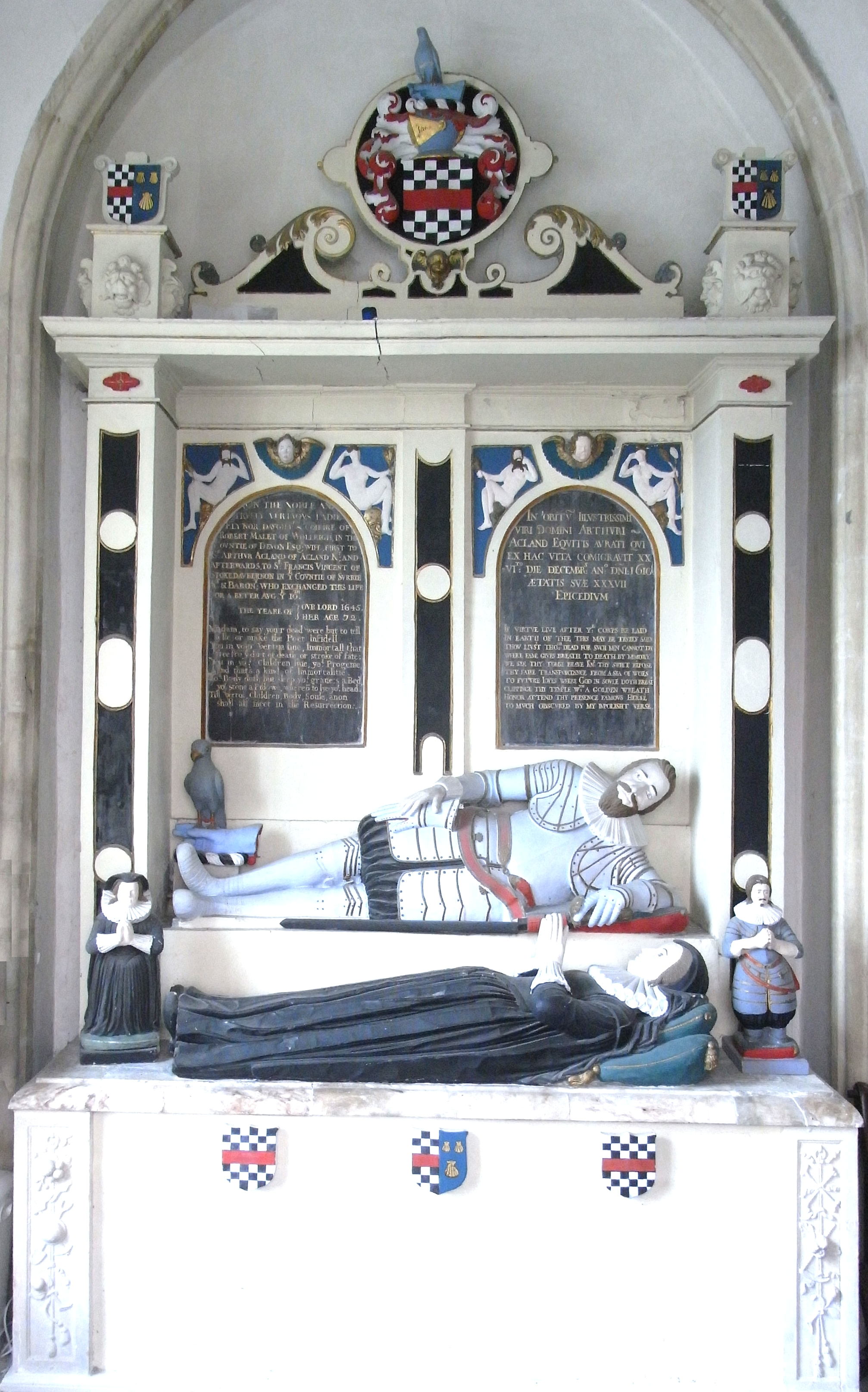 Monument to Sir Arthur Acland (d.1610) of Acland in parish of Landkey, Devon. Landkey Church.